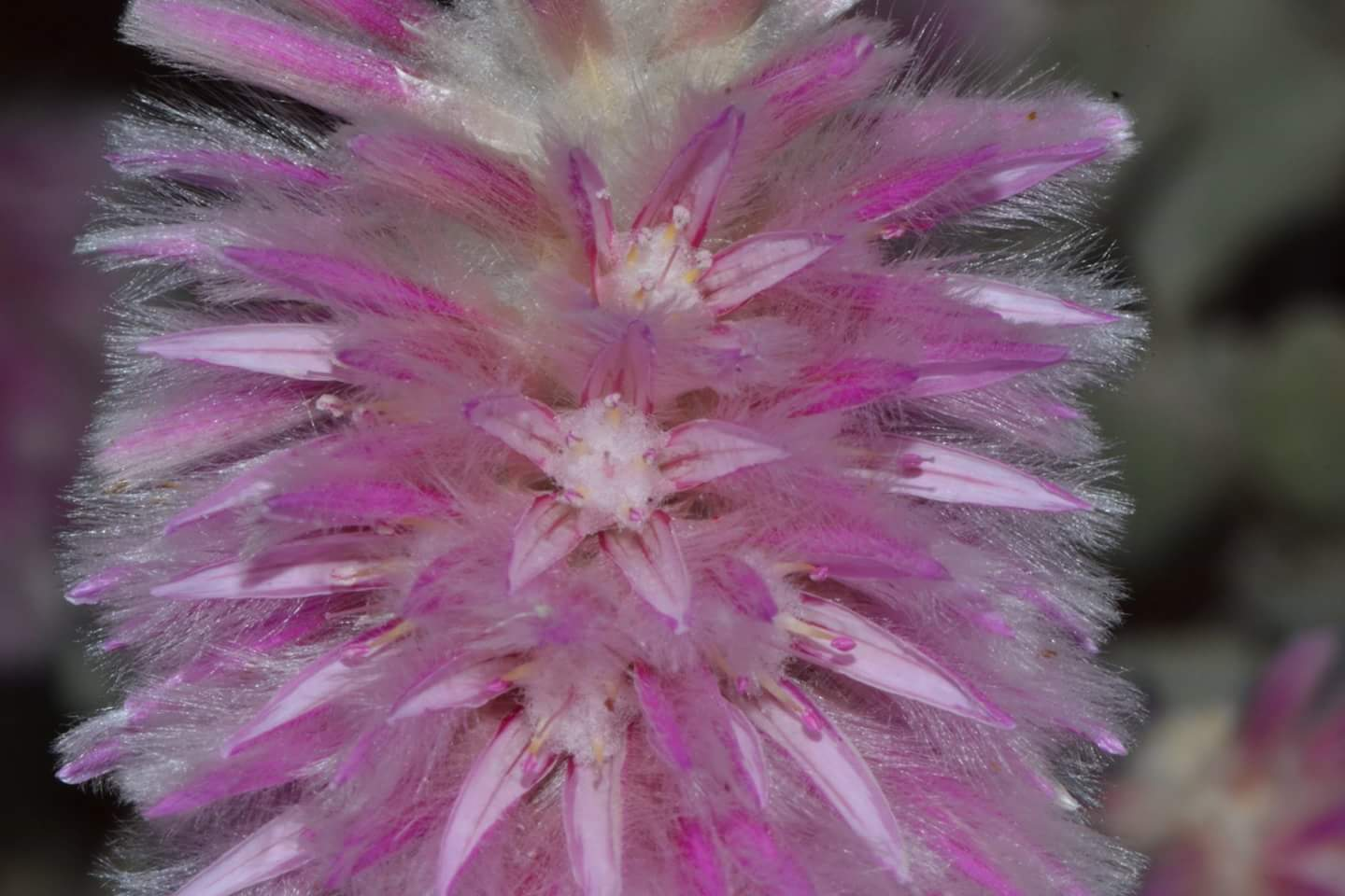 Close up of the flowers of Ptilotus rotundifolius (F.Muell.) F.Muell.. Photo taken near Mt. Magnet, Western Australia